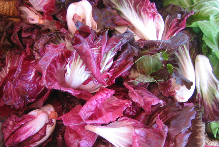 From the San Francisco Ferry Plaza Farmers Market